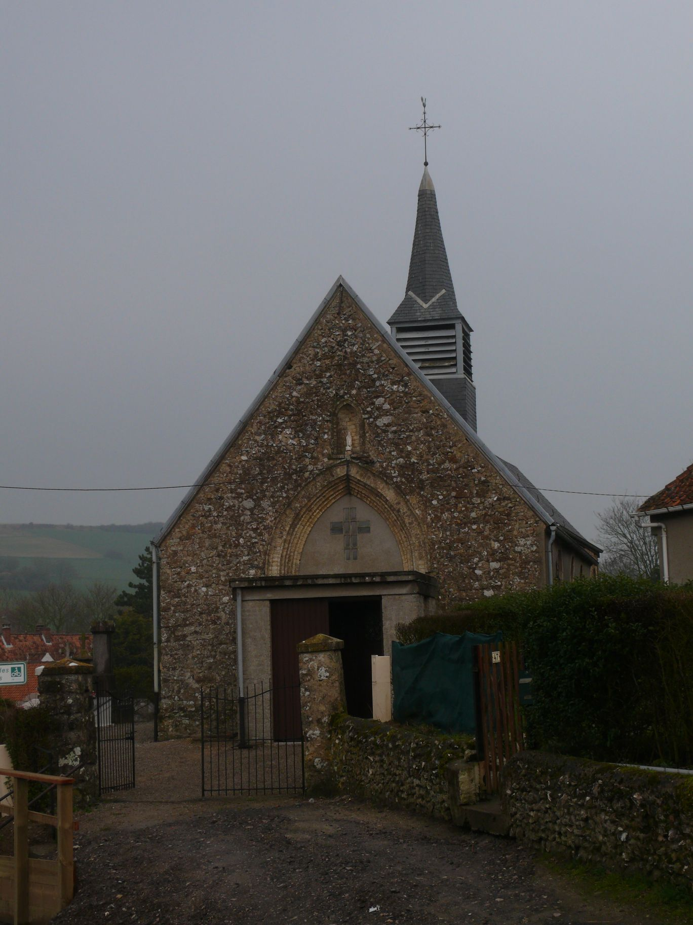 Saint-Quentin's church in Hervelinghen (Pas-de-Calais, France).